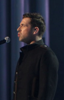 Mark Feehily at The Nobel Peace Price Concert 2009